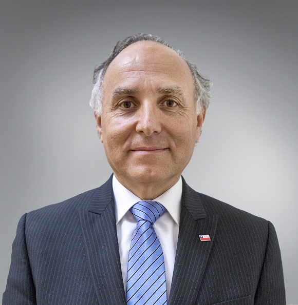 Foto oficial de Teodoro Ribera como Ministro, 2019